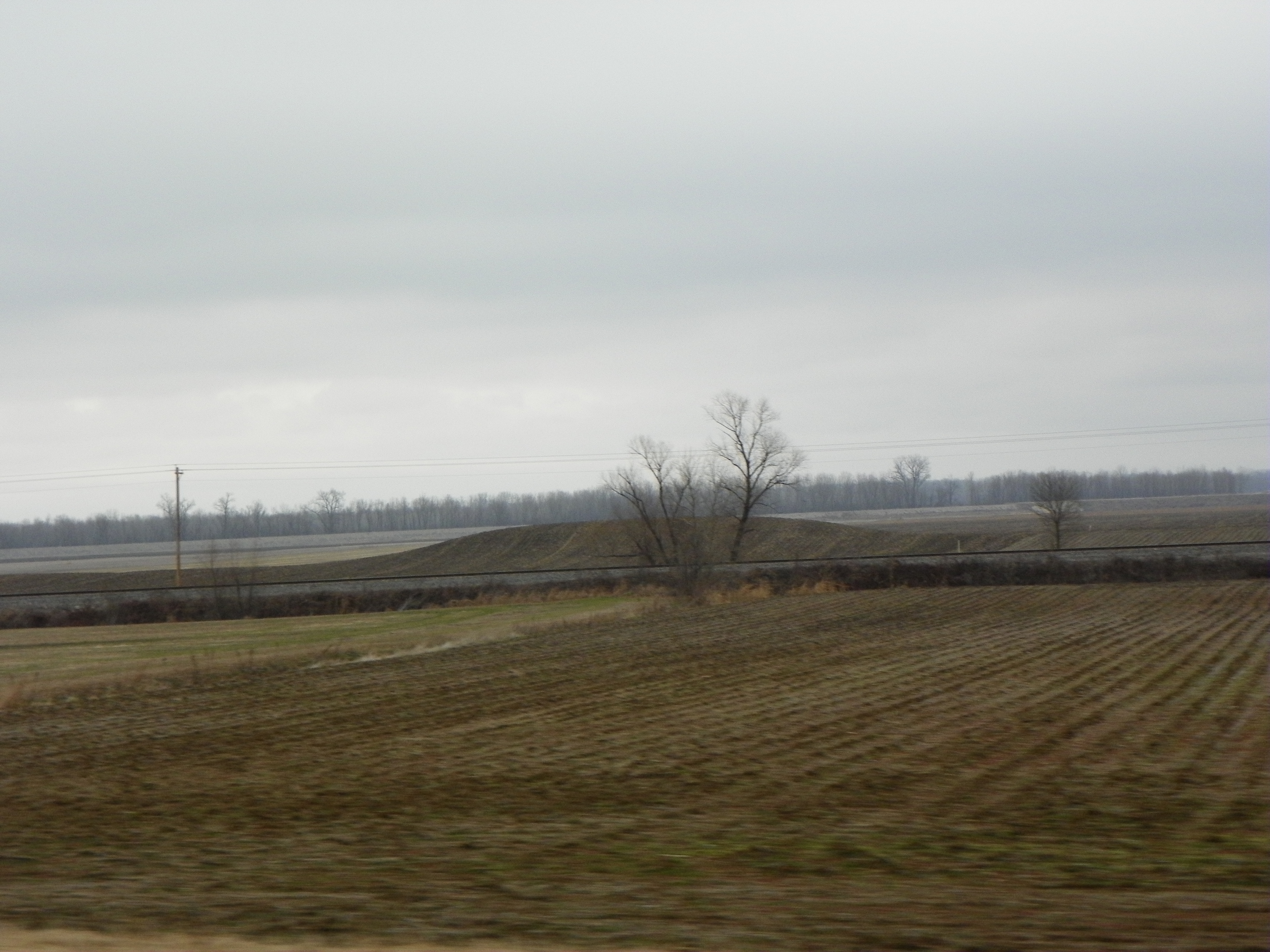 Le Grand Champ Bottoms, Ste. Genevieve County, Missouri, an old Indian Mound lying in the bottom.